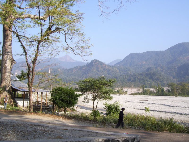 Jayanti is a small forest village within Buxa Tiger Reserve in Alipurduar district of West Bengal, India.